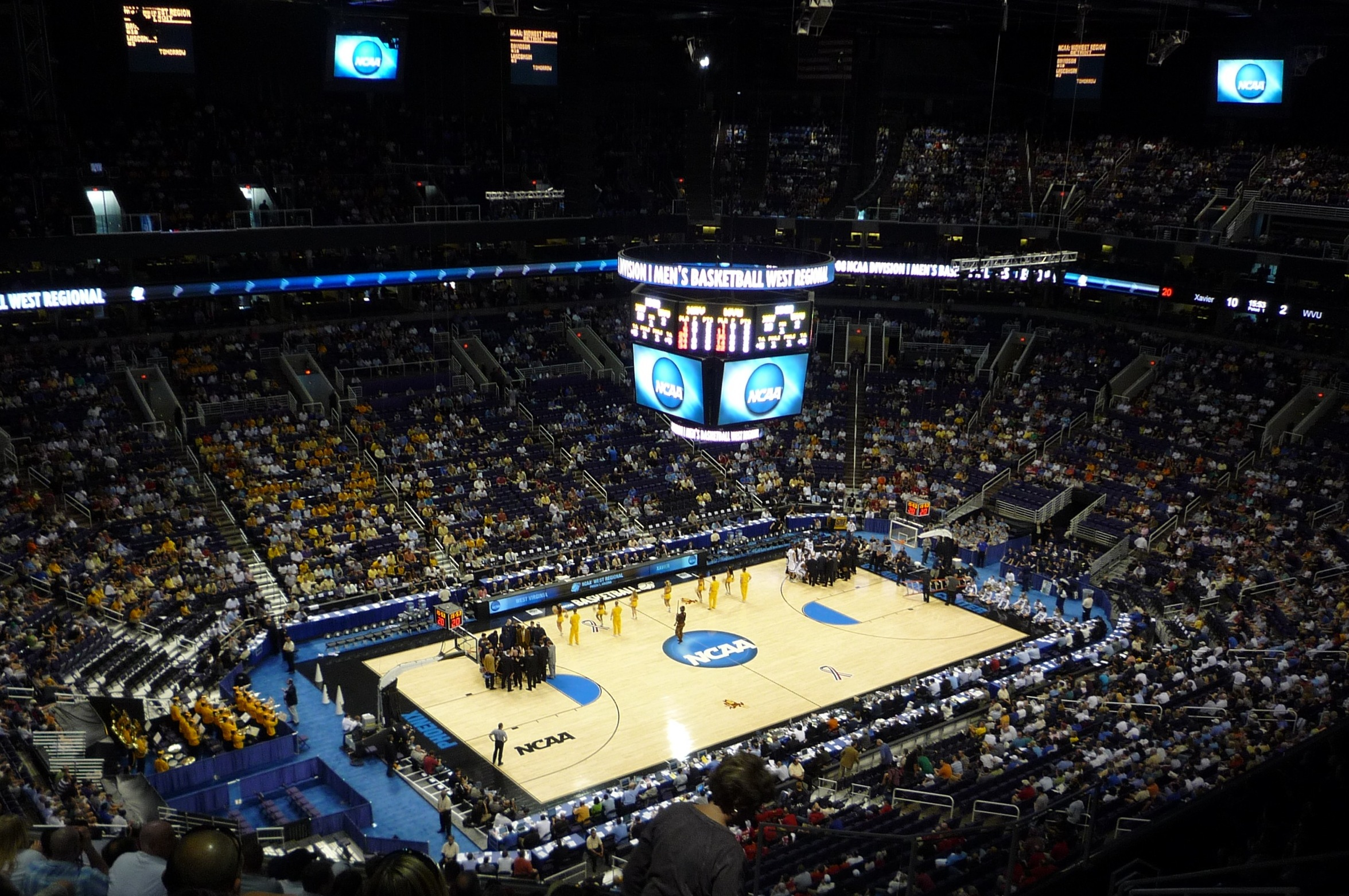 The Xavier vs. Virginia Sweet 16 matchup as part of the 2008 NCAA Men's Division I Basketball Tournament at the U.S. Airways Center on March 27, 2008.